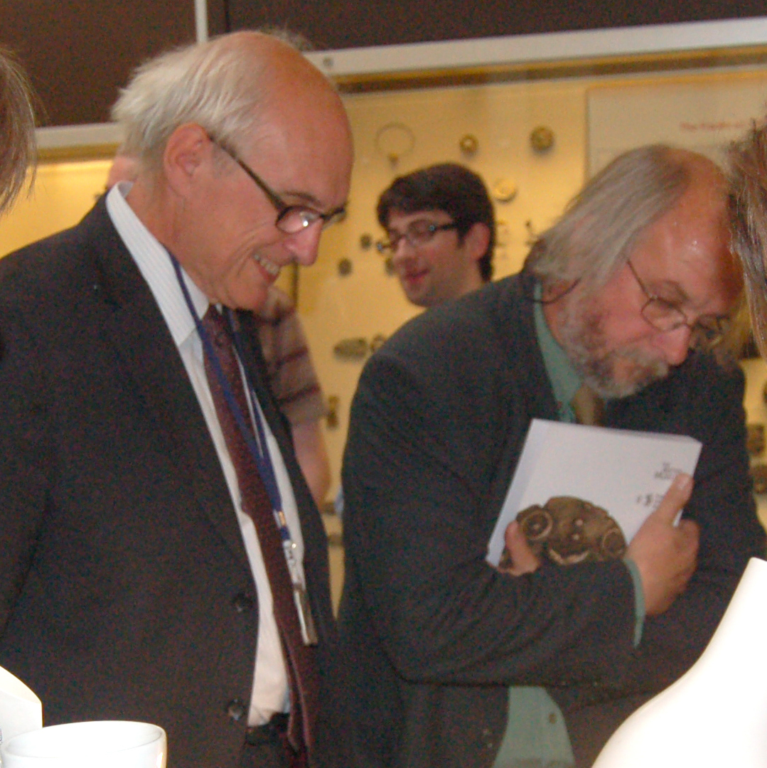 Left to right: Andrew Burnett, Peter Wilson